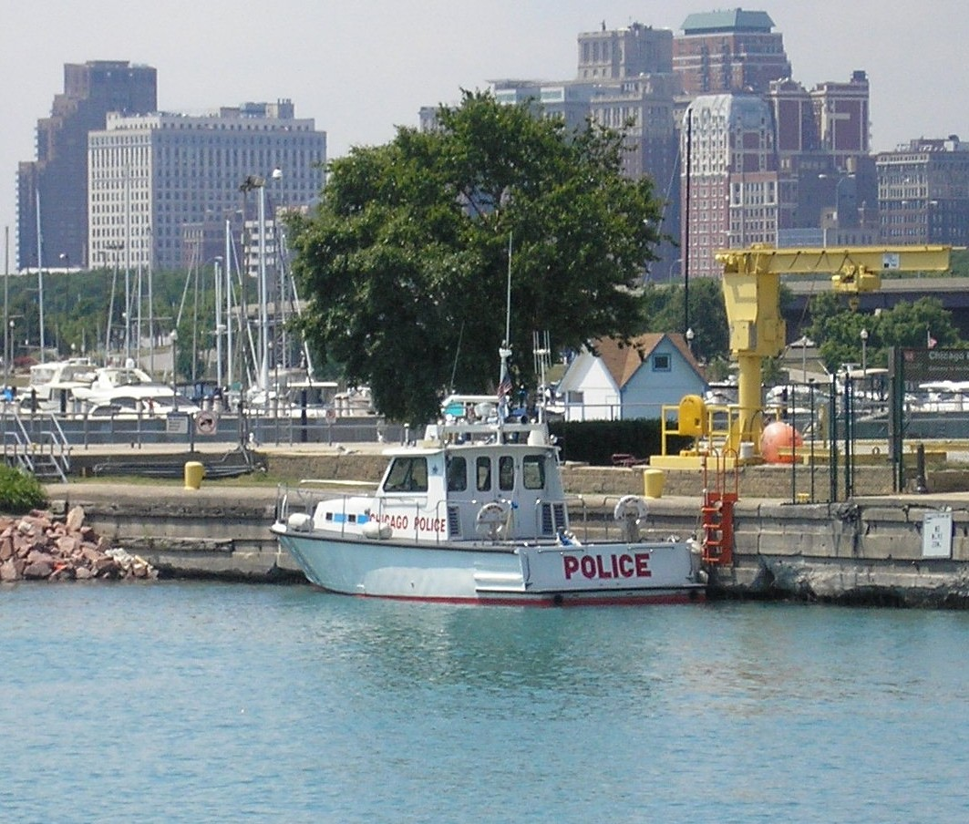 A Chicago Police Department boat Photo by Slo-mo Cropped from Image:Chicago (17).JPG